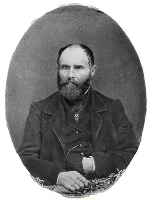 Finnish nobleman and officer of the Swedish Army Carl Henrik von Knorring (1793-1863)